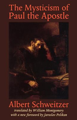 The cover of Albert Schweitzer's "The Mysticism of Paul the Apostle"